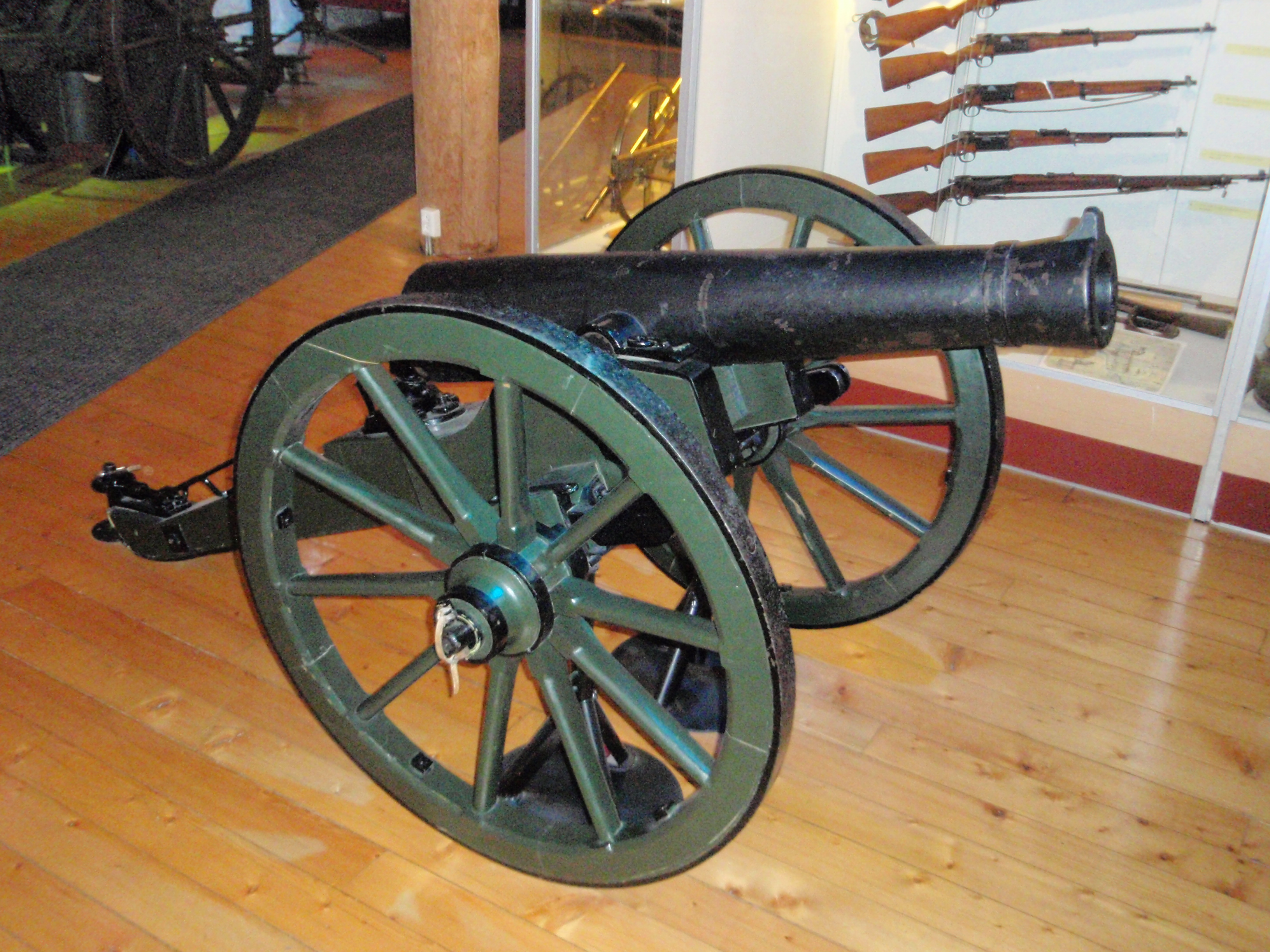 A Norwegian 6 pounder Bergkanon M/1848 mountain gun on display at the armoury museum in the Archbishop's Palace in Trondheim, Norway.